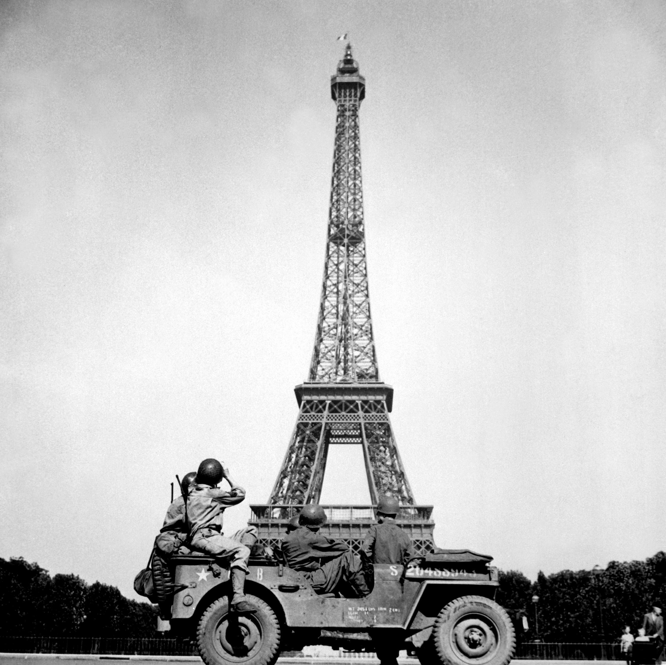 Soldiers of the 4th U.S. Infantry Division look at the Eiffel Tower in Paris, after the French capital had been liberated on August 25, 1944. John Downey. (OWI) NARA FILE #: 208-MFI-3B-1 WAR & CONFLICT BOOK #: 1058